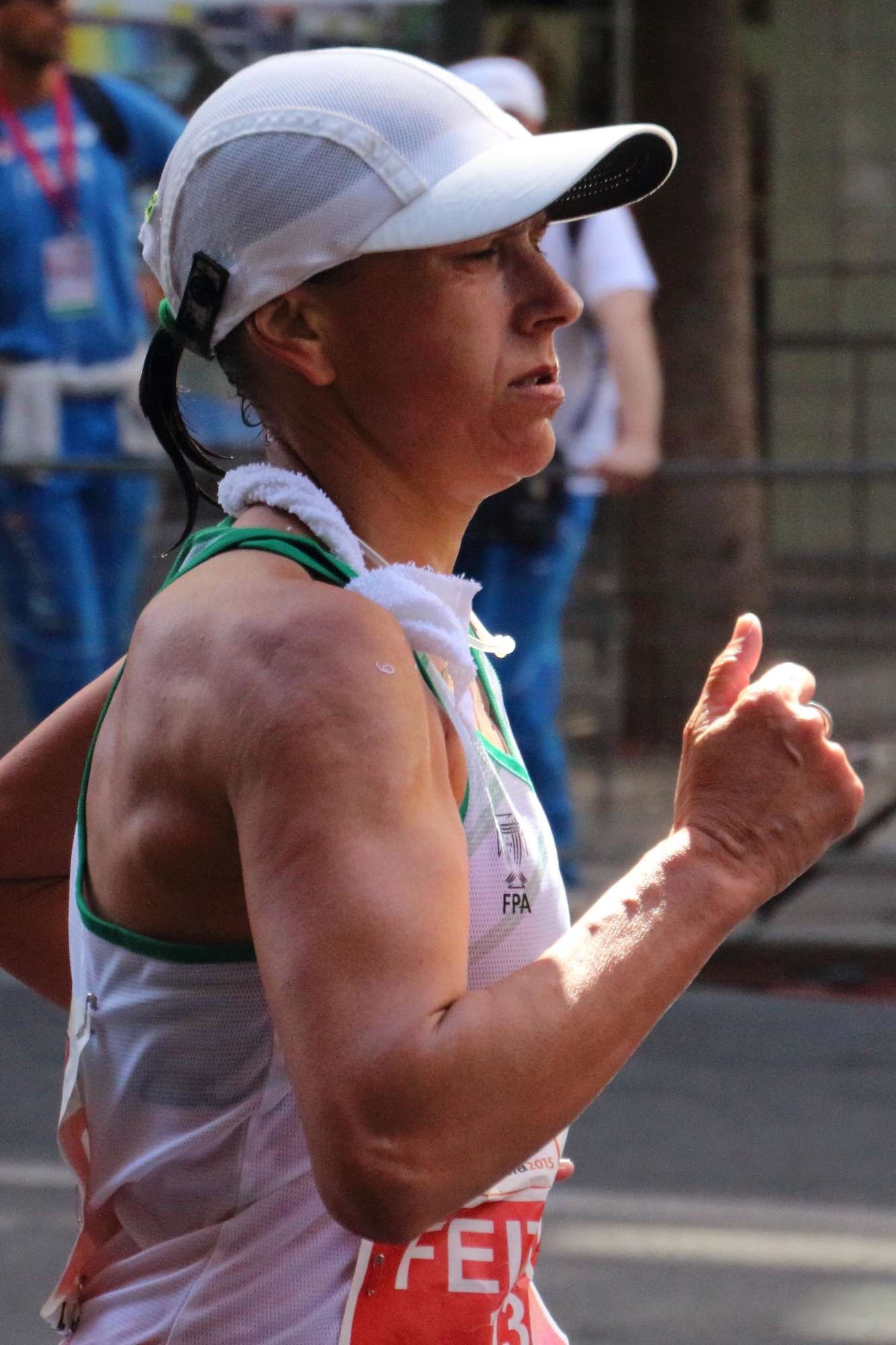 Susana Feitor, portuguese race walker, in the European Cup Race Walking 2015 (Murcia, Spain).